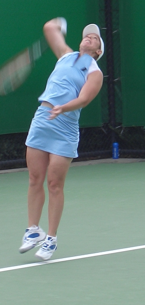 Lisa Raymond during one of her matches at the 2006 Australian Open.